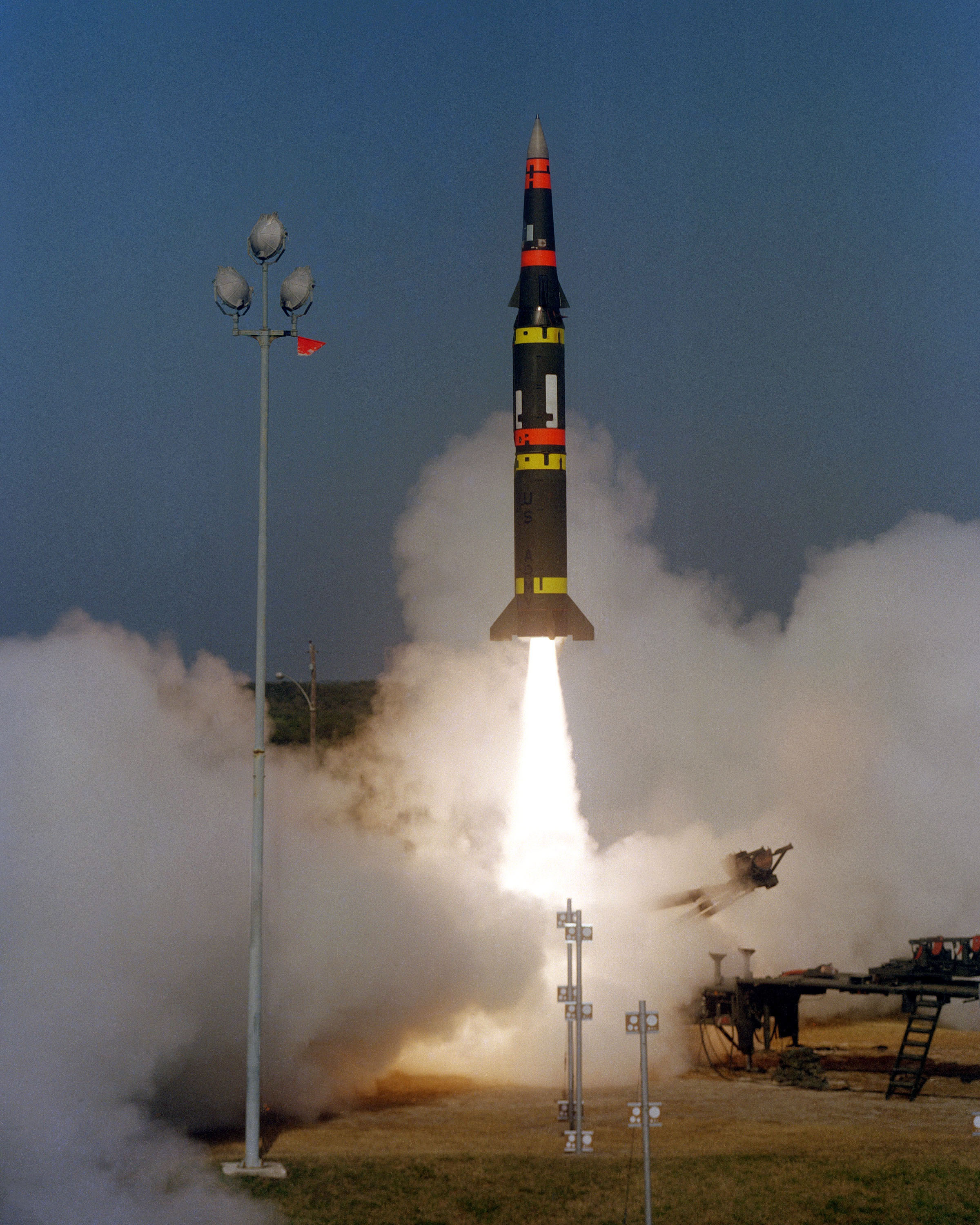 The US Army launches a Pershing II battlefield support missile on a long-range flight down the Eastern Test Range at 10:06 a.m. EST. This is the forth test flight in the Pershing II engineering and development program and the third flight from Cape Canaveral.